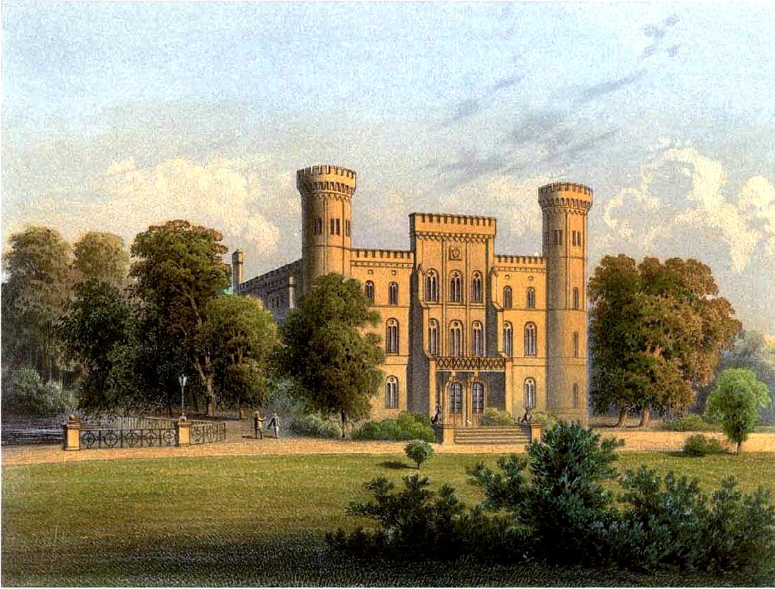 Czartoryski castle in Rokosowo